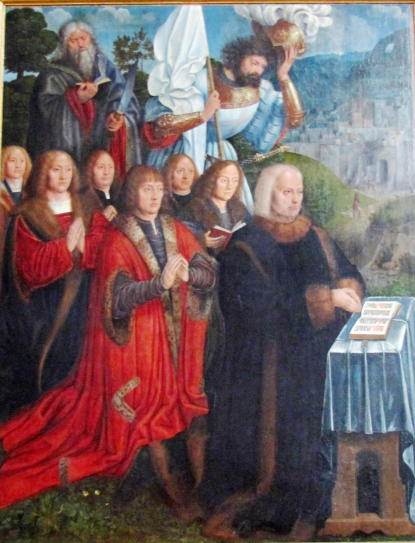 Left wing of the Brömbsenaltar in St. Jakobi, Lübeck, showing deHeinrich Brömse and his sons